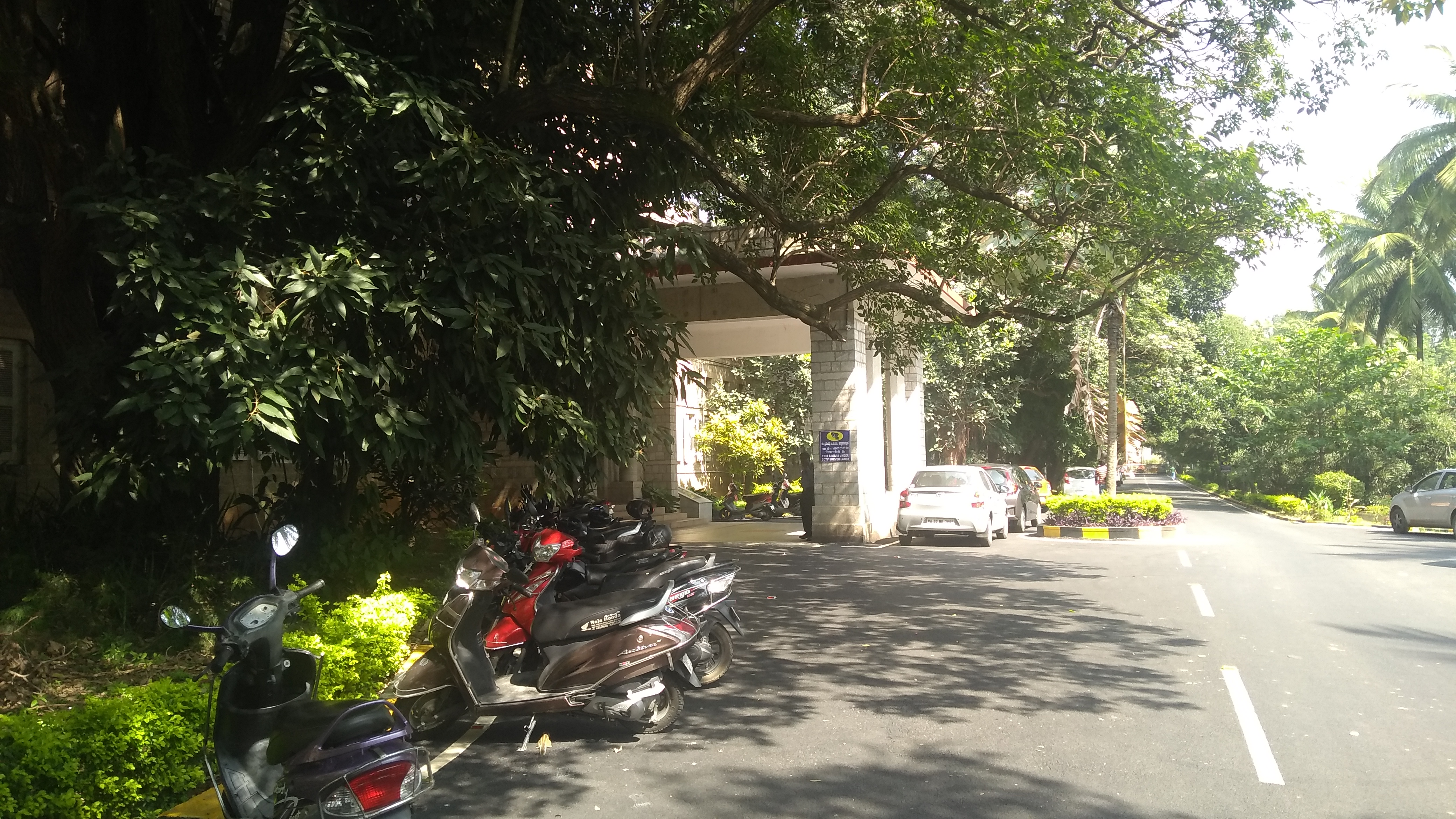 NIMHANS campus, Bengaluru. Photo by Frederick Noronha. +91-98221